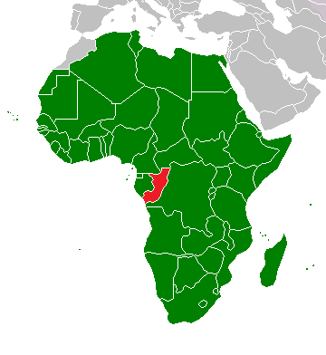 Association of National Olympic Committees of Africa Members